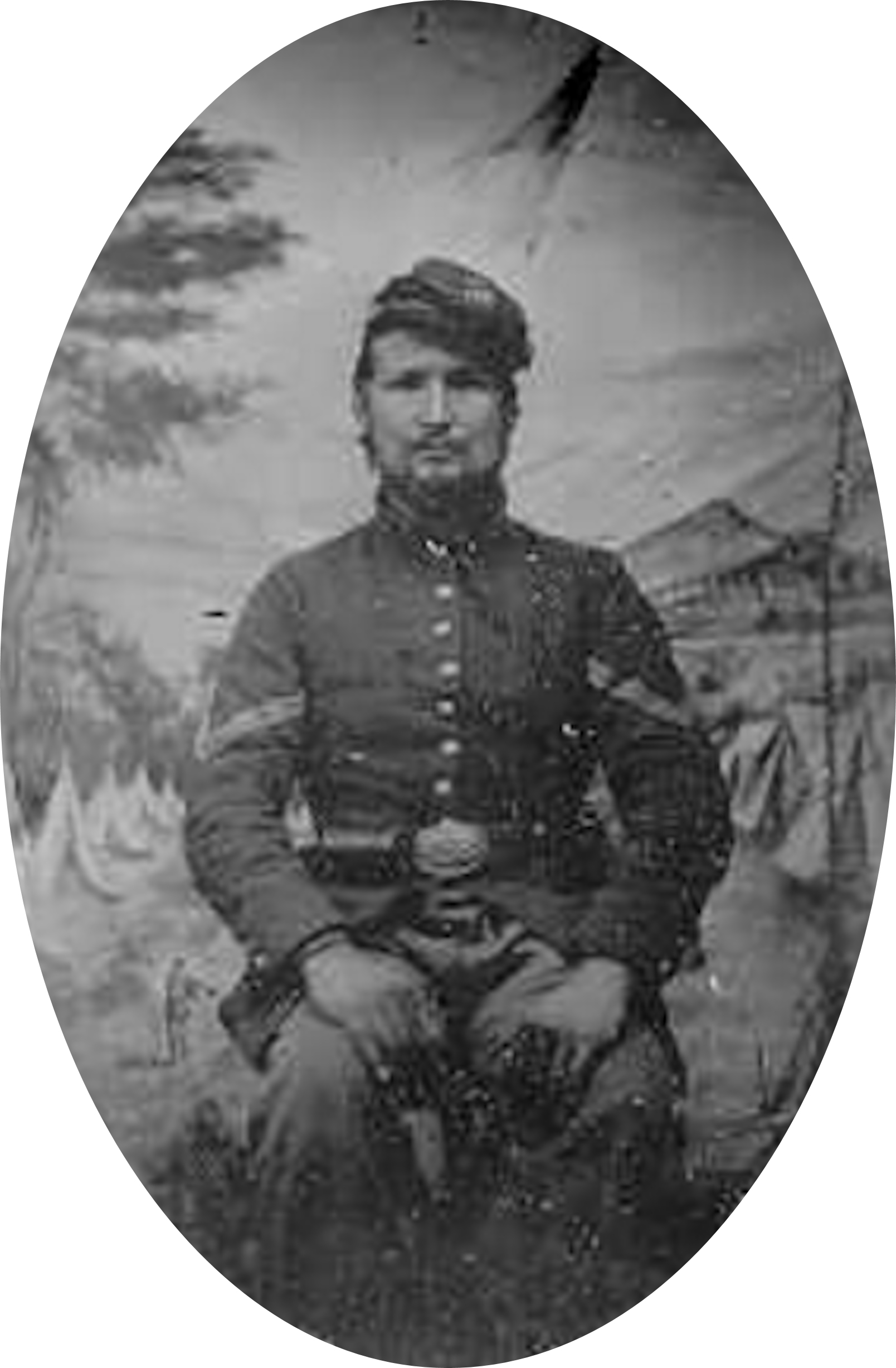 MoH winner Conrad Noll